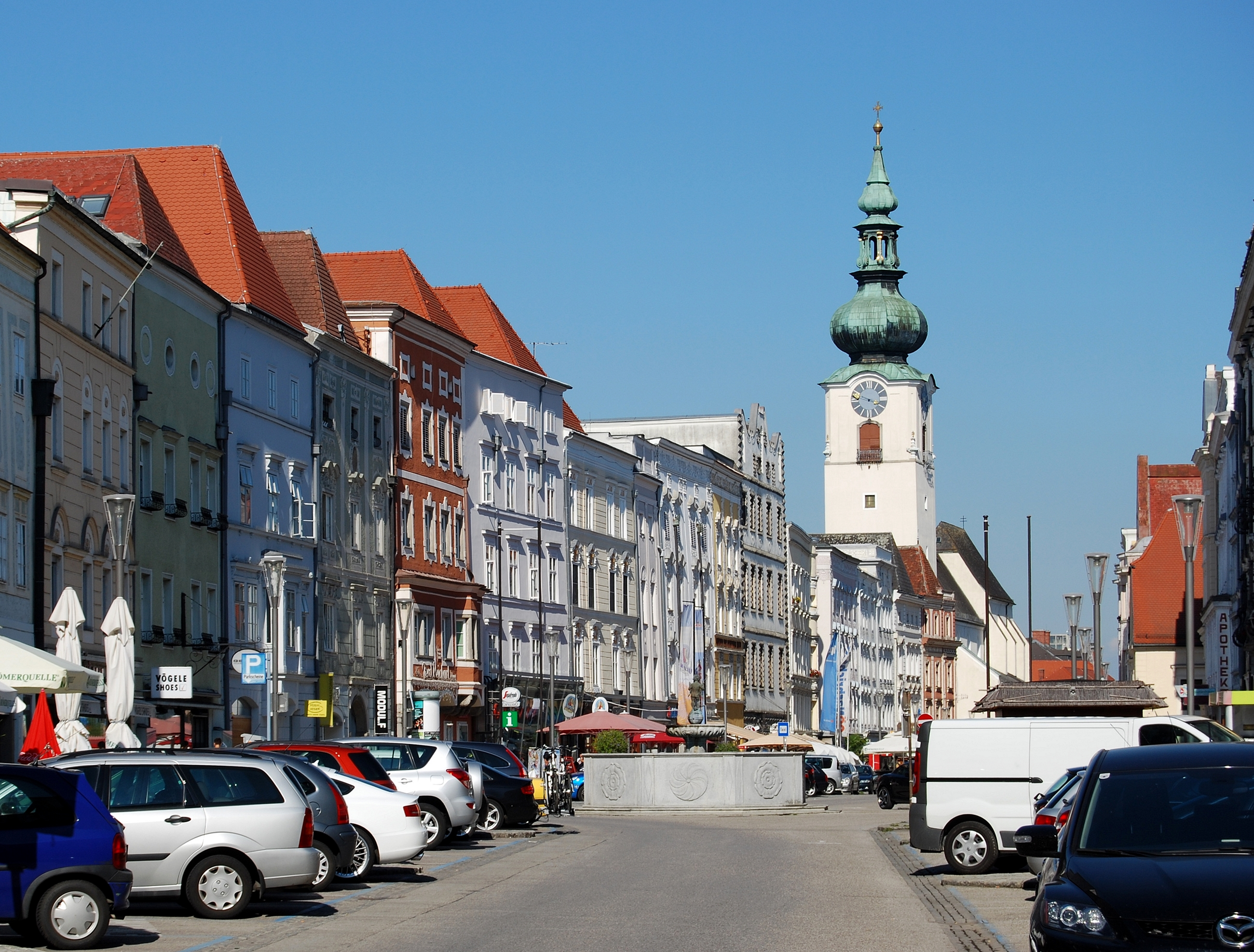 The main square of Wels, Upper Austria.